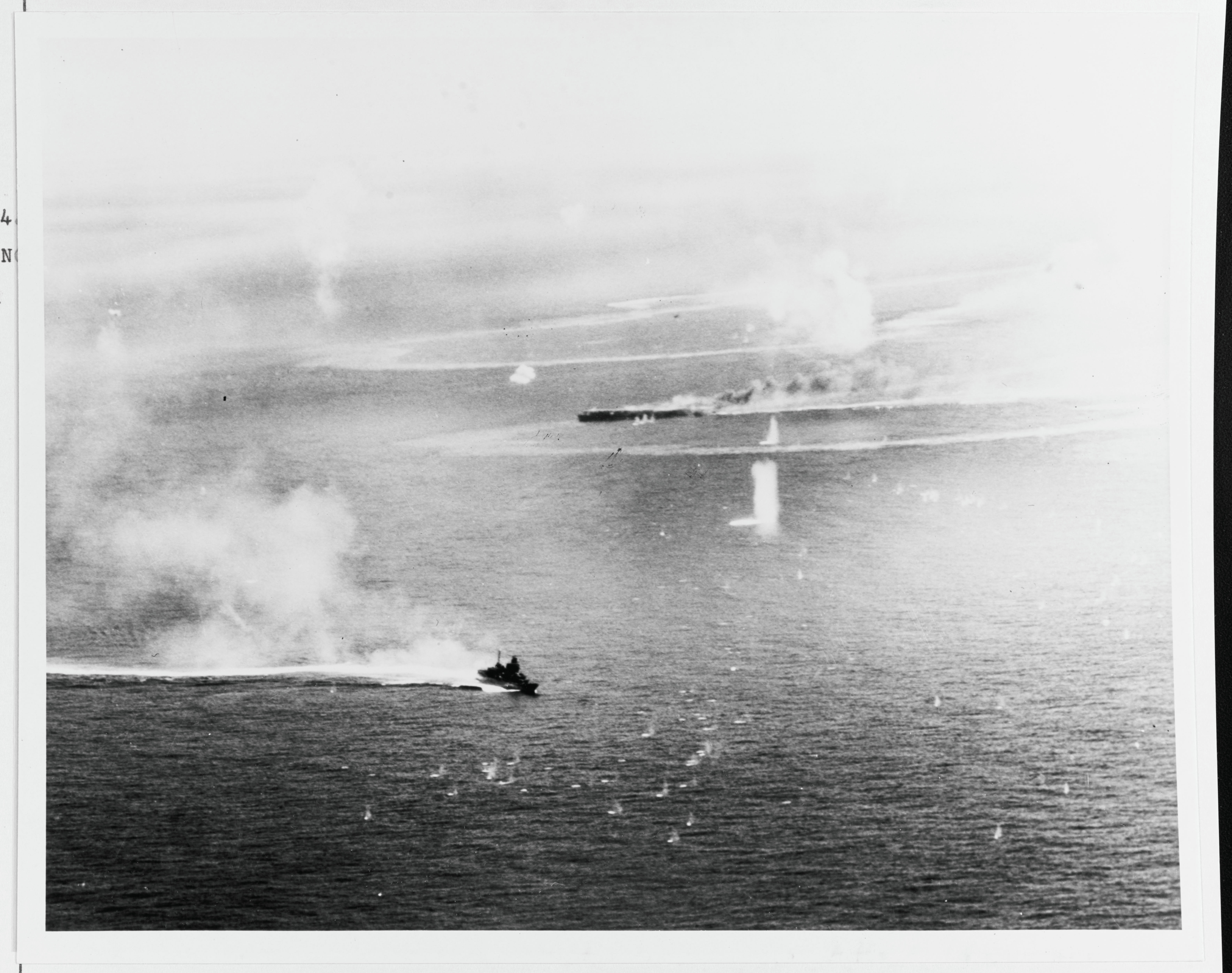 Japanese carrier Zuihō sinking during the Battle off Cape Engaño, 25 October 1944. Cruiser Ōyodo in the foreground.